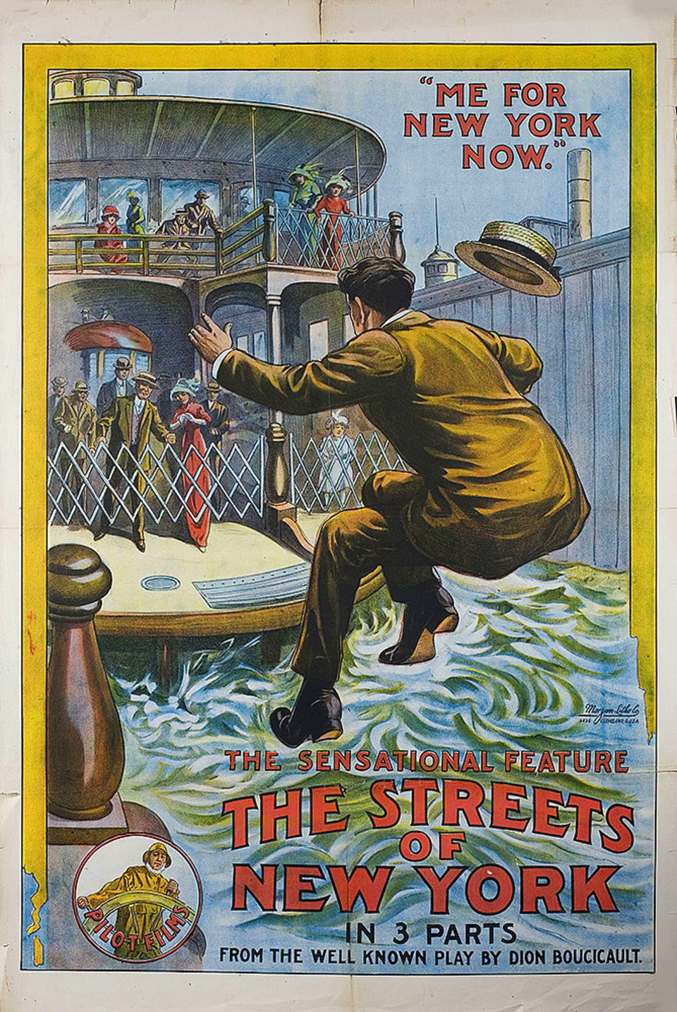 Poster for the 1922 film The Streets of New York.